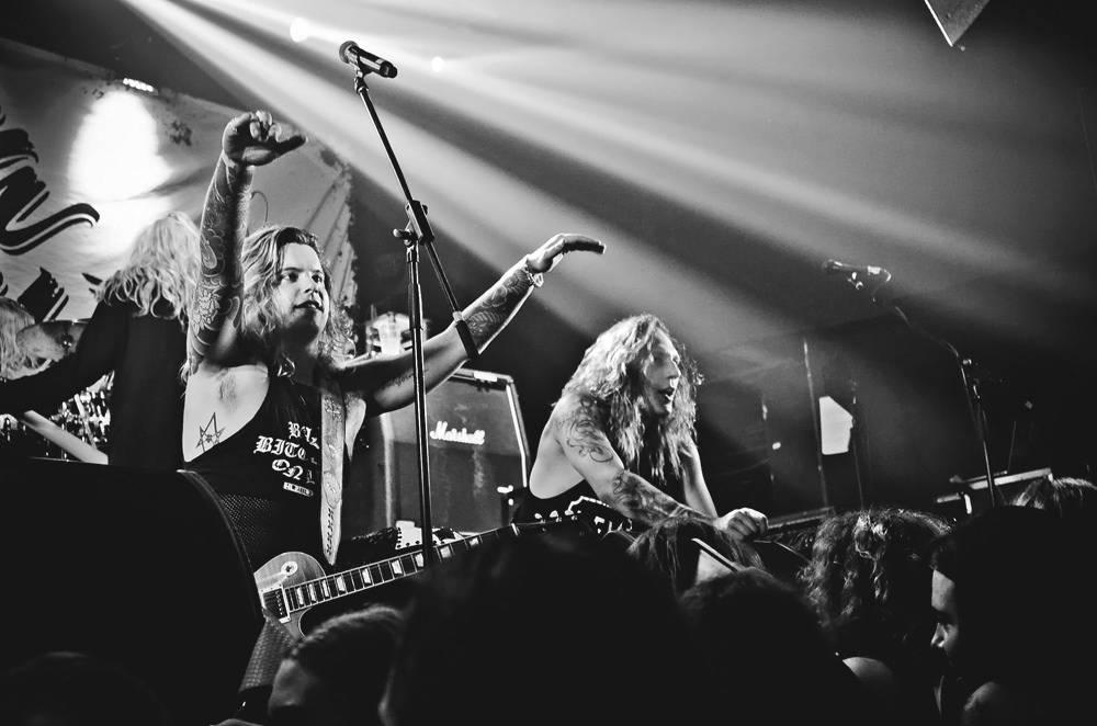 Santa Cruz performing in Moscow (Gorod club) during their Bad Blood Rising Tour 2017